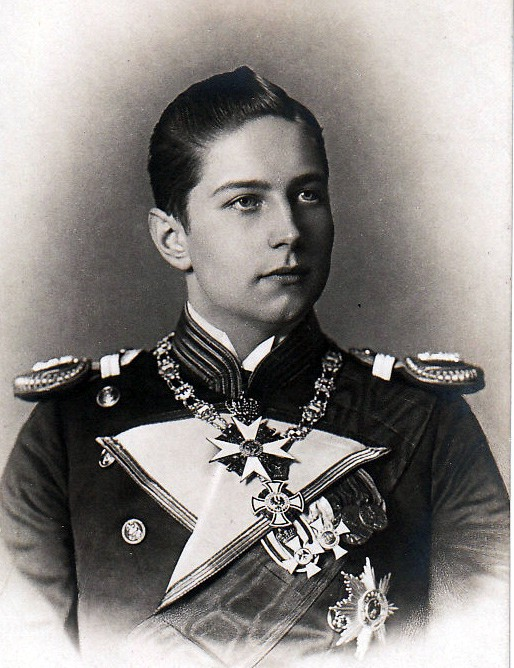 Prince Adalbert of Prussia